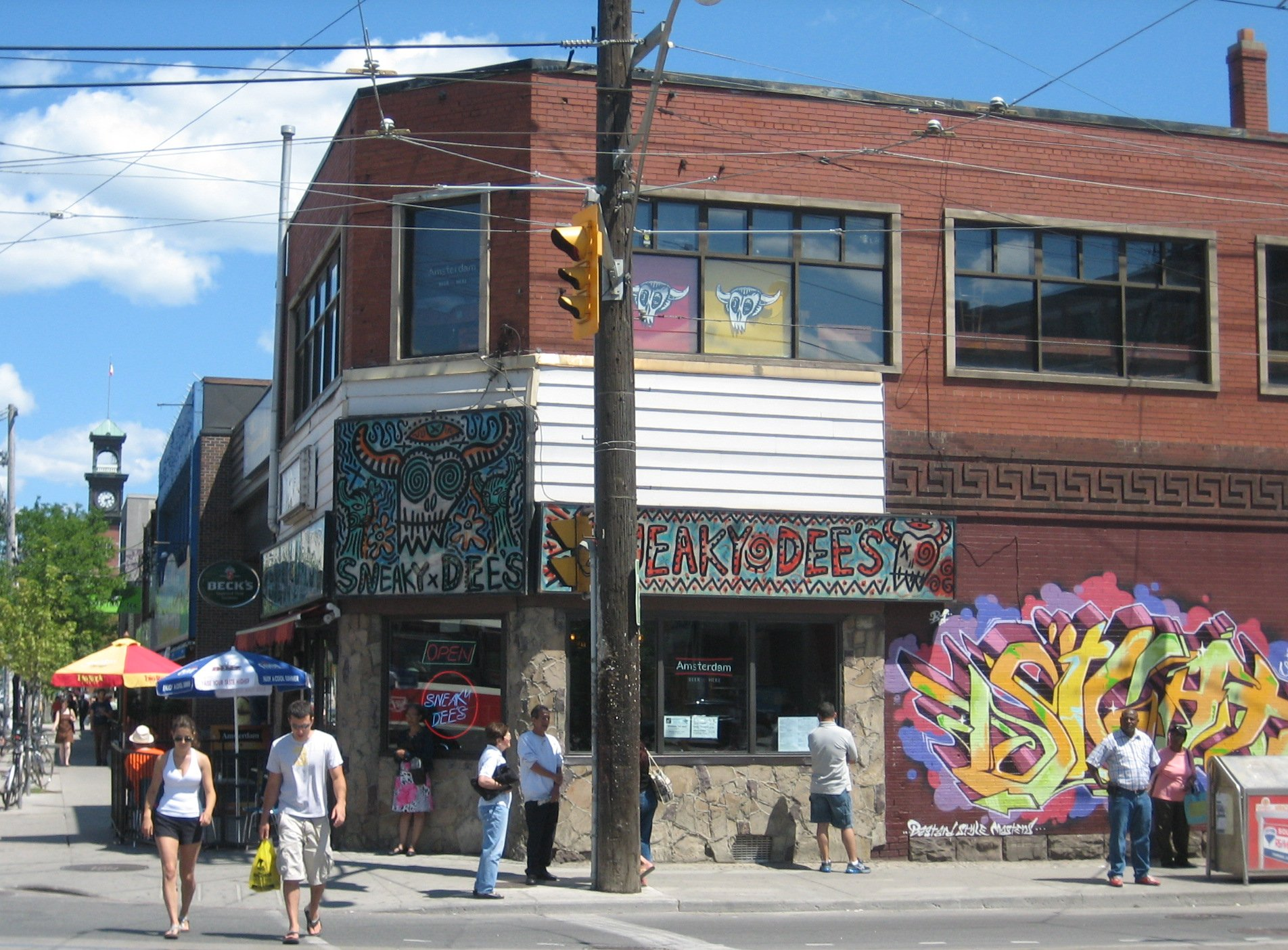 Sneaky Dee's in Toronto